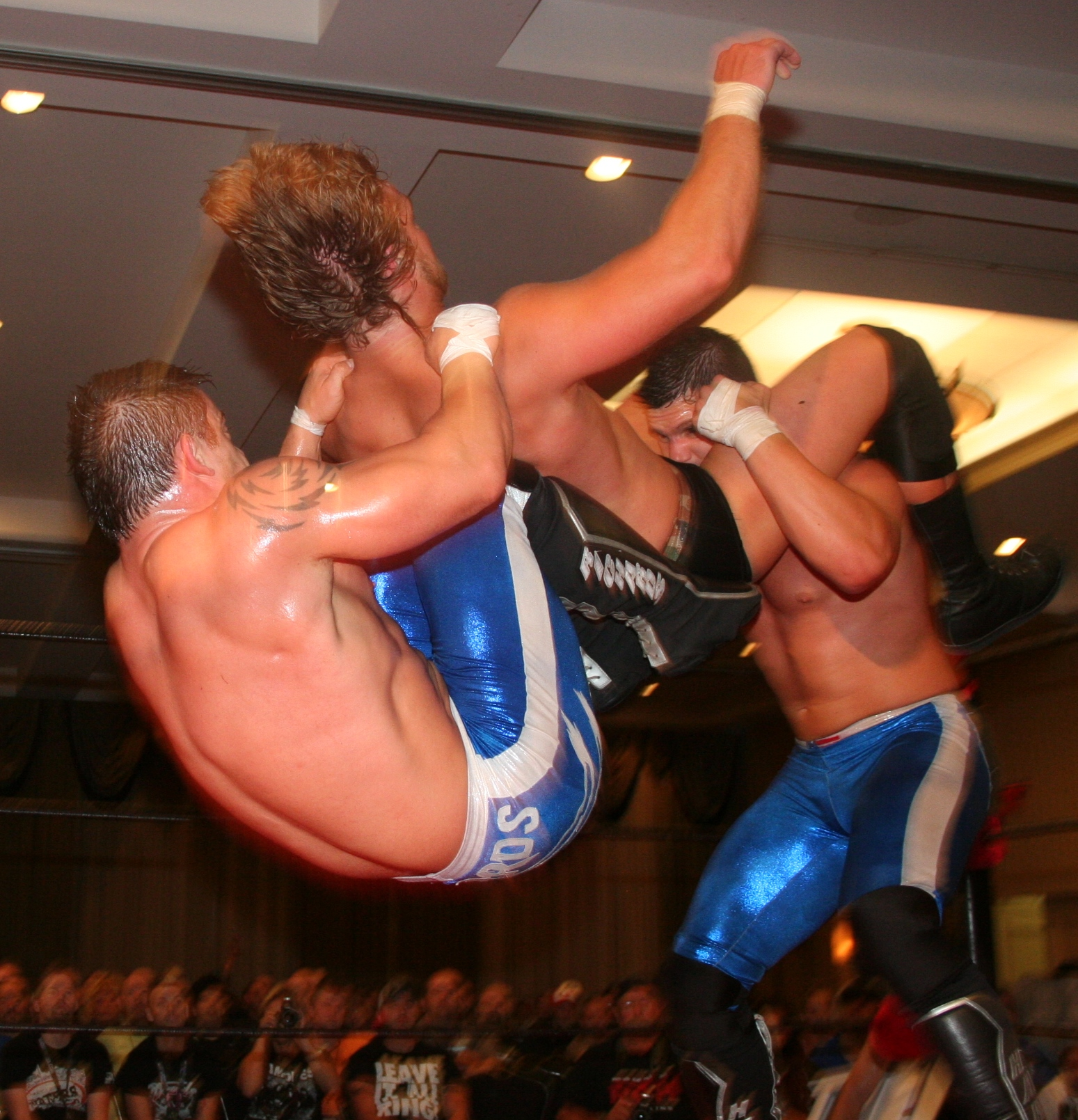 The American Wolves performing their powerbomb/double knee backbreaker double-team move on Adam Page during a match in August 2014.